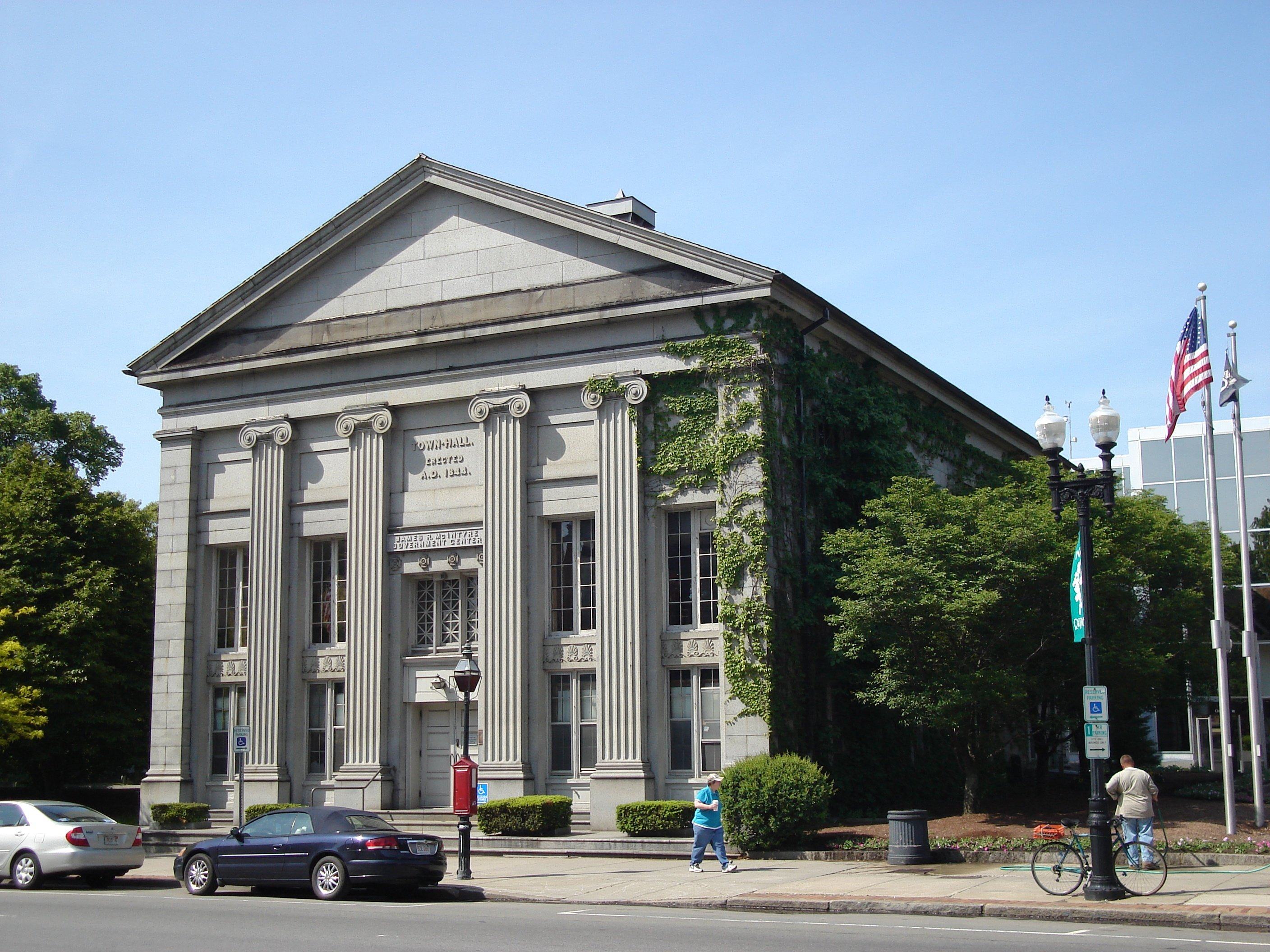 Quincy, Massachusetts town hall building, officially known as The James R. McIntyre Government Center, housing city offices, built in 1844 of Quincy granite.